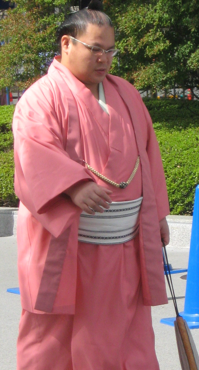 taken at 2008 Sept tournament